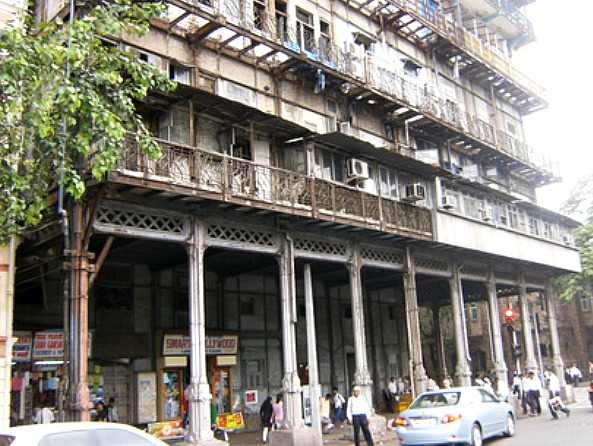 Situaated at Fort, Mumbai